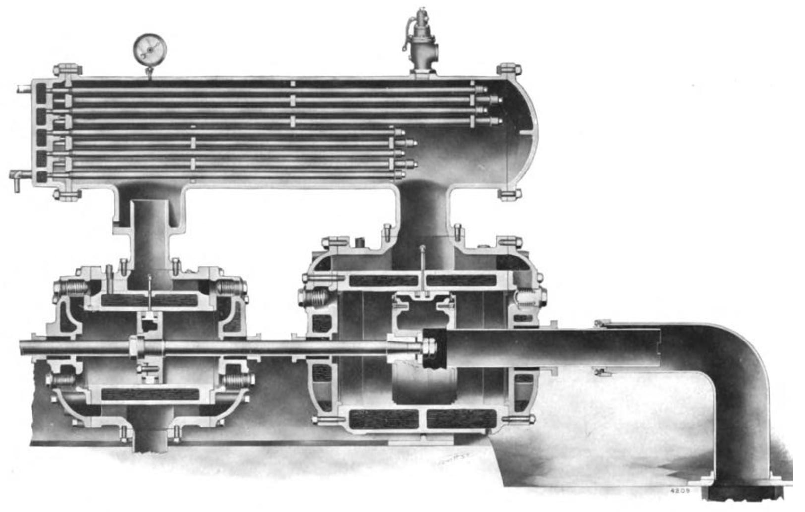 Ingersoll-Rand Class AA-2 air compressor cross section 1910. Longitudinal section through air cylinders and intercooler of the class "AA-2" compressor, showing the ample air passages and large intercooler.